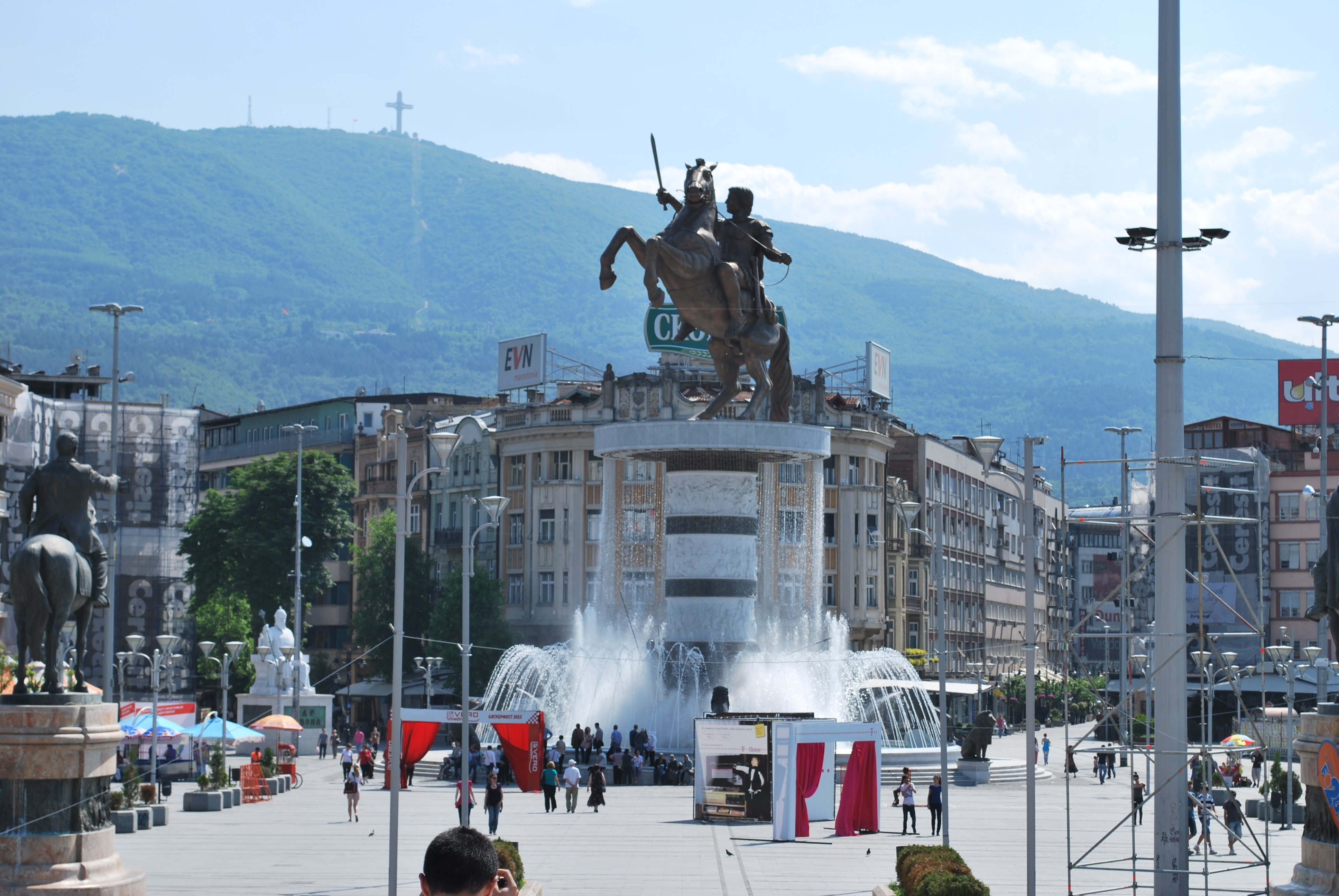 Skopje, Macedonia